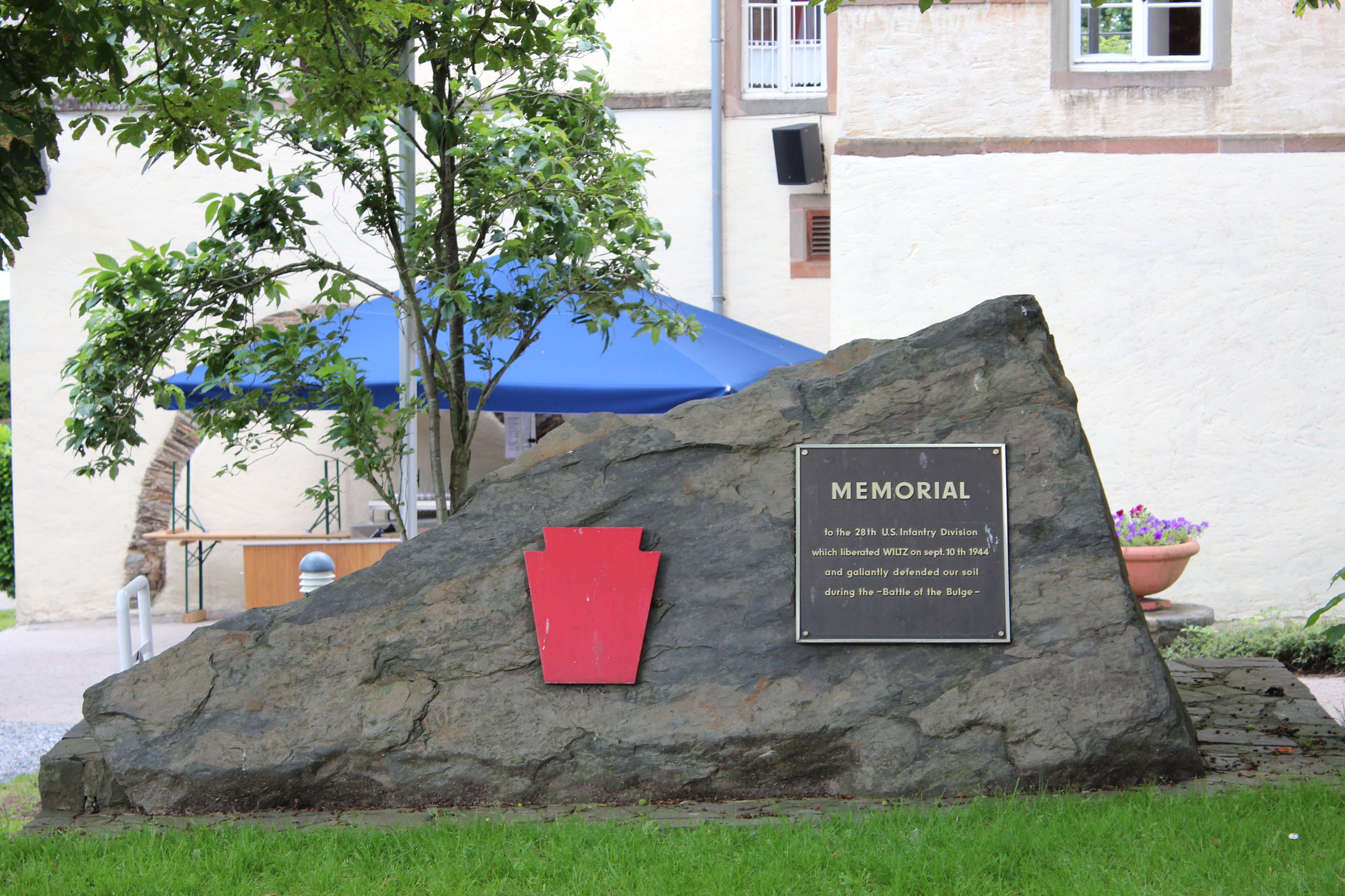 Monument 28th Infantry Division in Wiltz, Luxembourg.